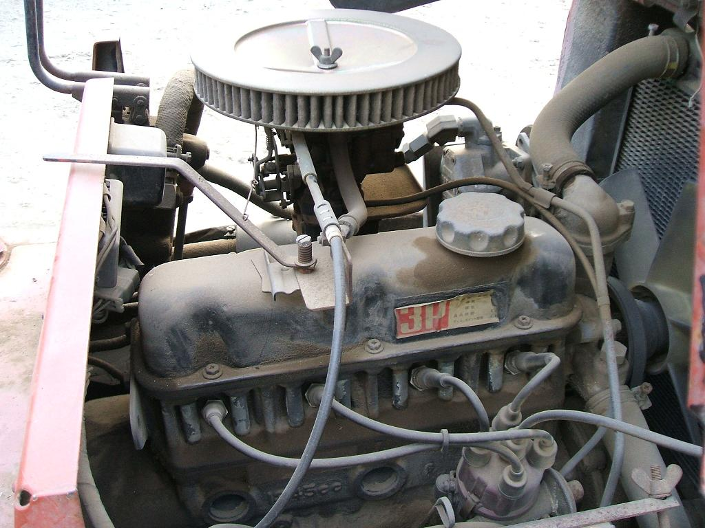 Toyota 3P engine for Toyota Forklift truck.